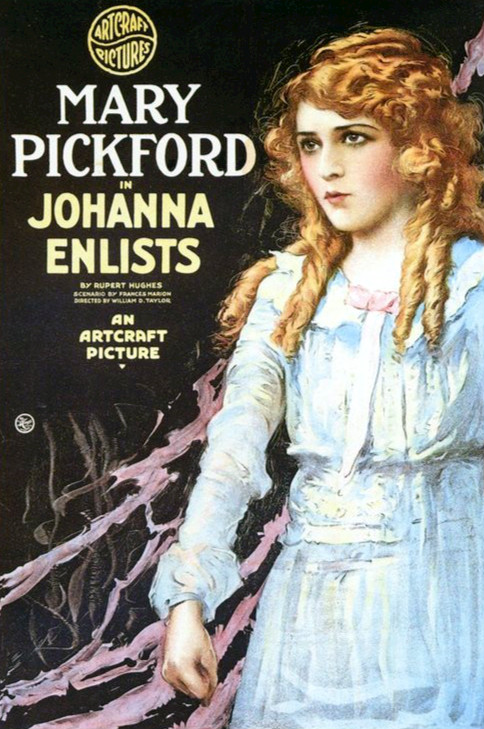 Poster from the American comedy drama film Johanna Enlists (1918).